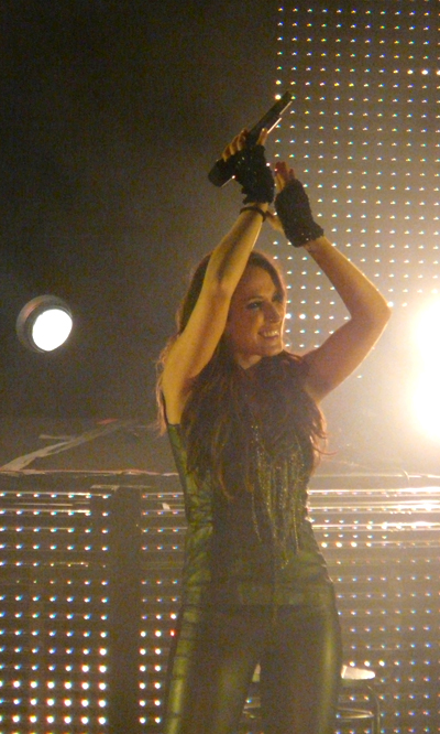 Malú performing in Spain.